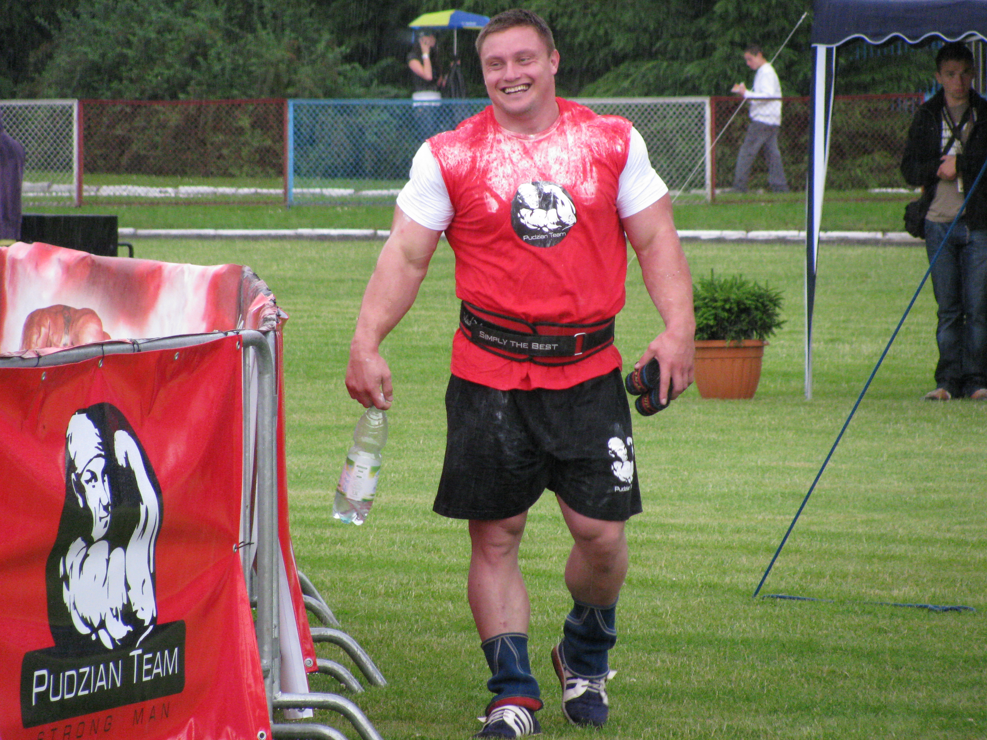 Krzysztof Radzikowski - a strength athlete from Poland